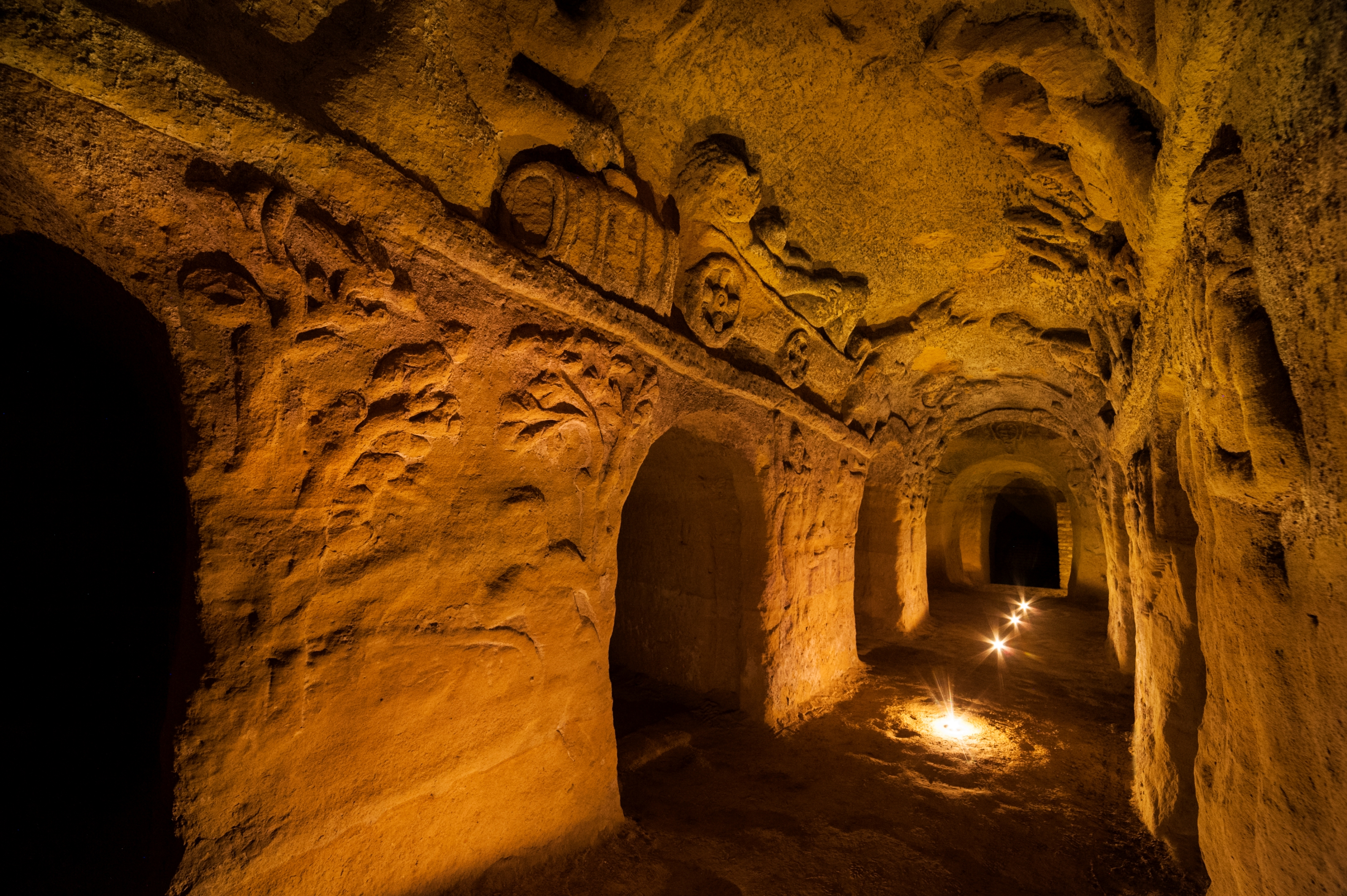 Caves Palazzo Campana 5